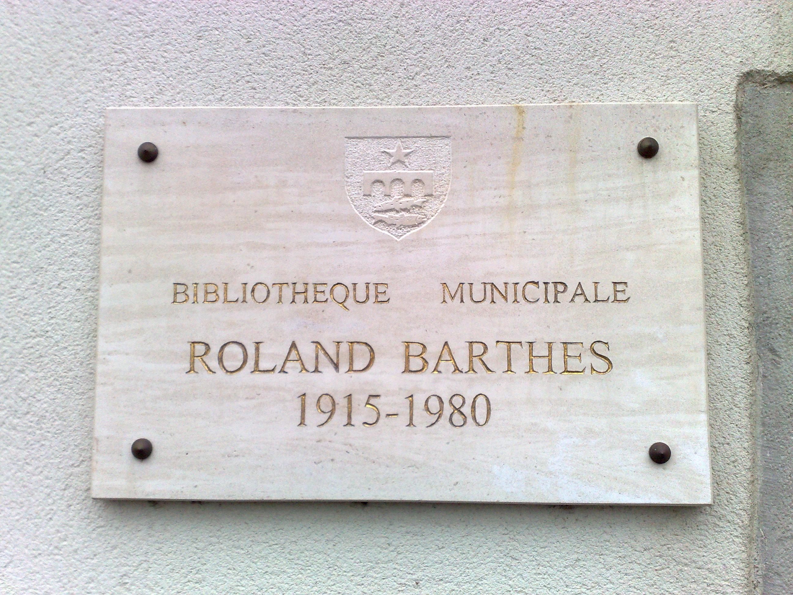 Plaque of the Roland Barthes Bibliotheque, Ahurti-Urt, France, Lapurdi-labourd, Basque Country.